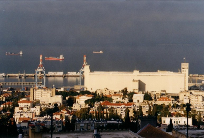 Dagon Grains Storage (grain elevator), Haifa